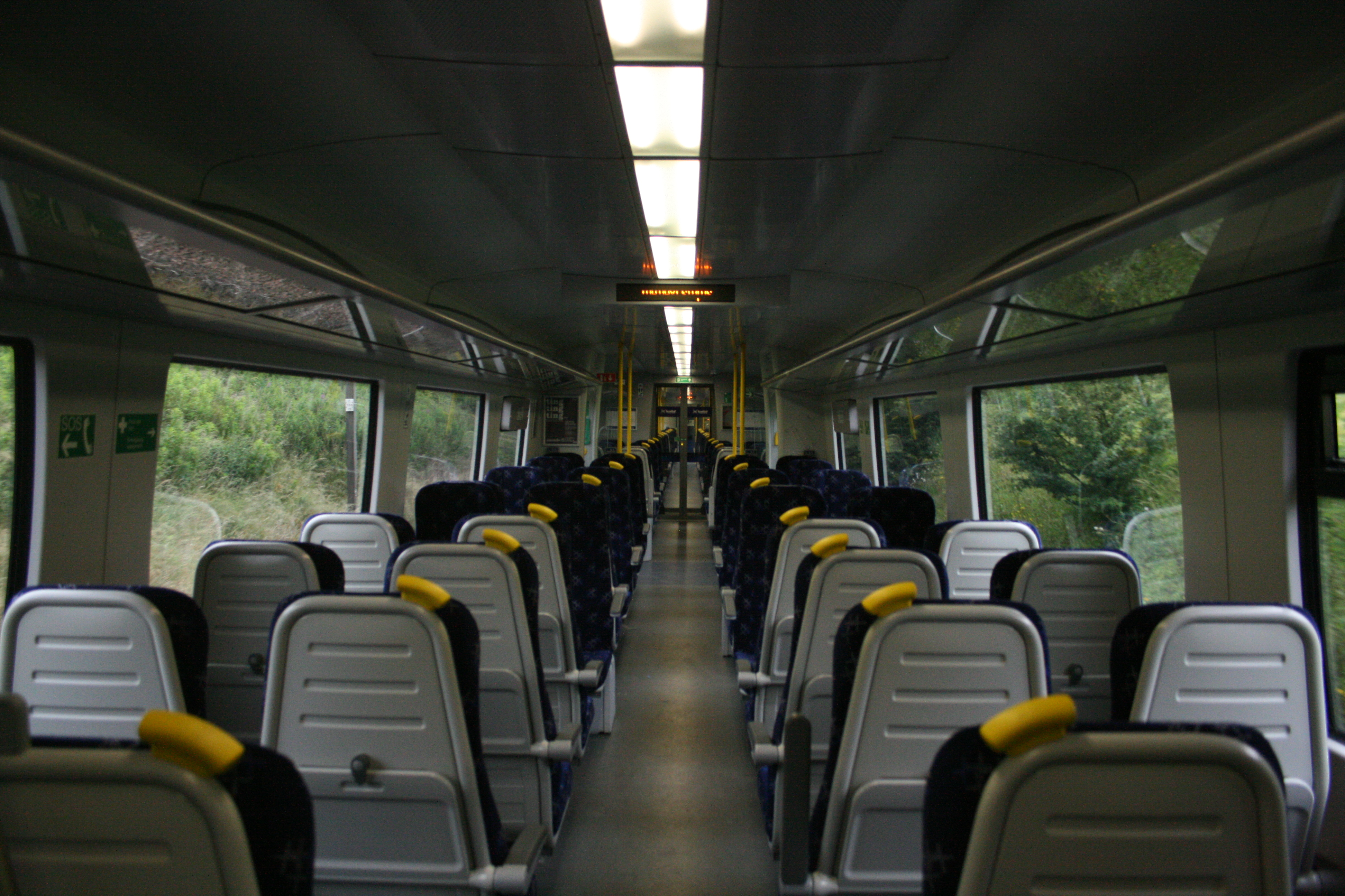 Interior shot of a Class 380 while en route to Dunbar station.